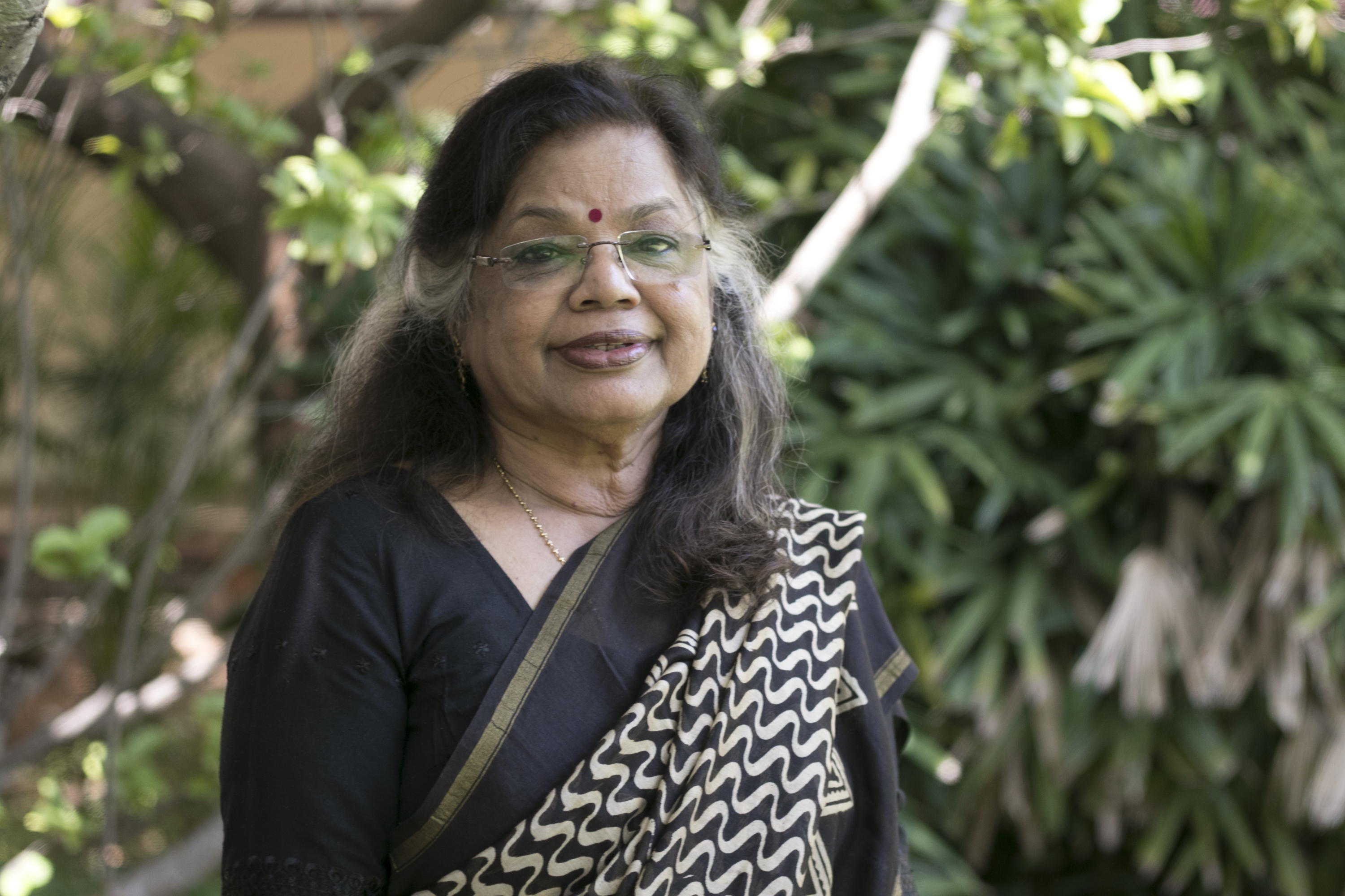 Anvita Abbi if a linguist and scholar of Indian indigenous languages. This picture was clicked at the Indian Institute of Technology Madras, Chennai, Tamil Nadu, India.